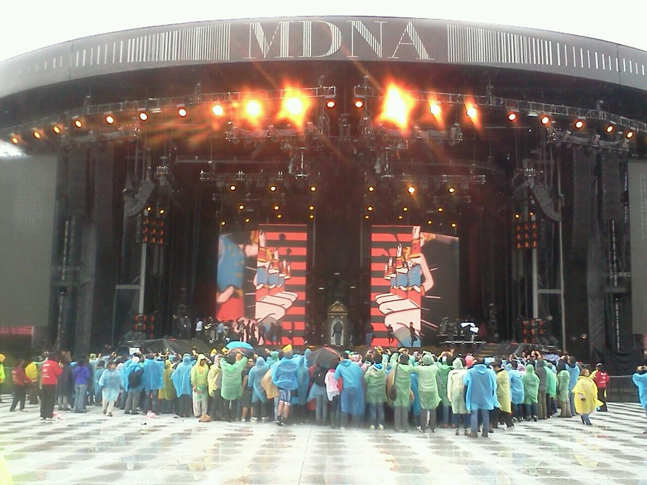 The MDNA Tour stage, in Estadio Nacional Julio Martínez Prádanos, Santiago, Chile. taken on 2012.12.19.